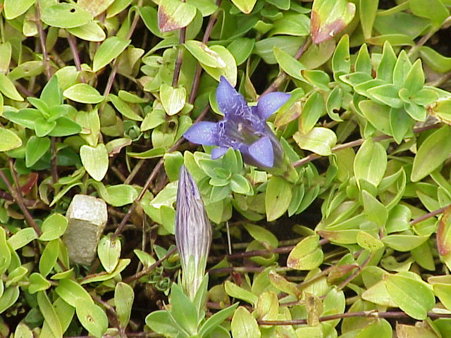 Species: Gentiana septemfida Family: Gentianaceae Image No. 1